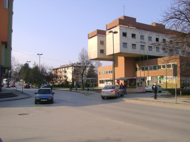 Visoko; Part built in period of socialist Yugoslavia.